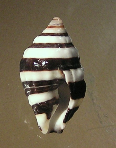 Engina mendicaria (Linnaeus, 1758); a trie whelk from the family Buccinidae; South China Sea